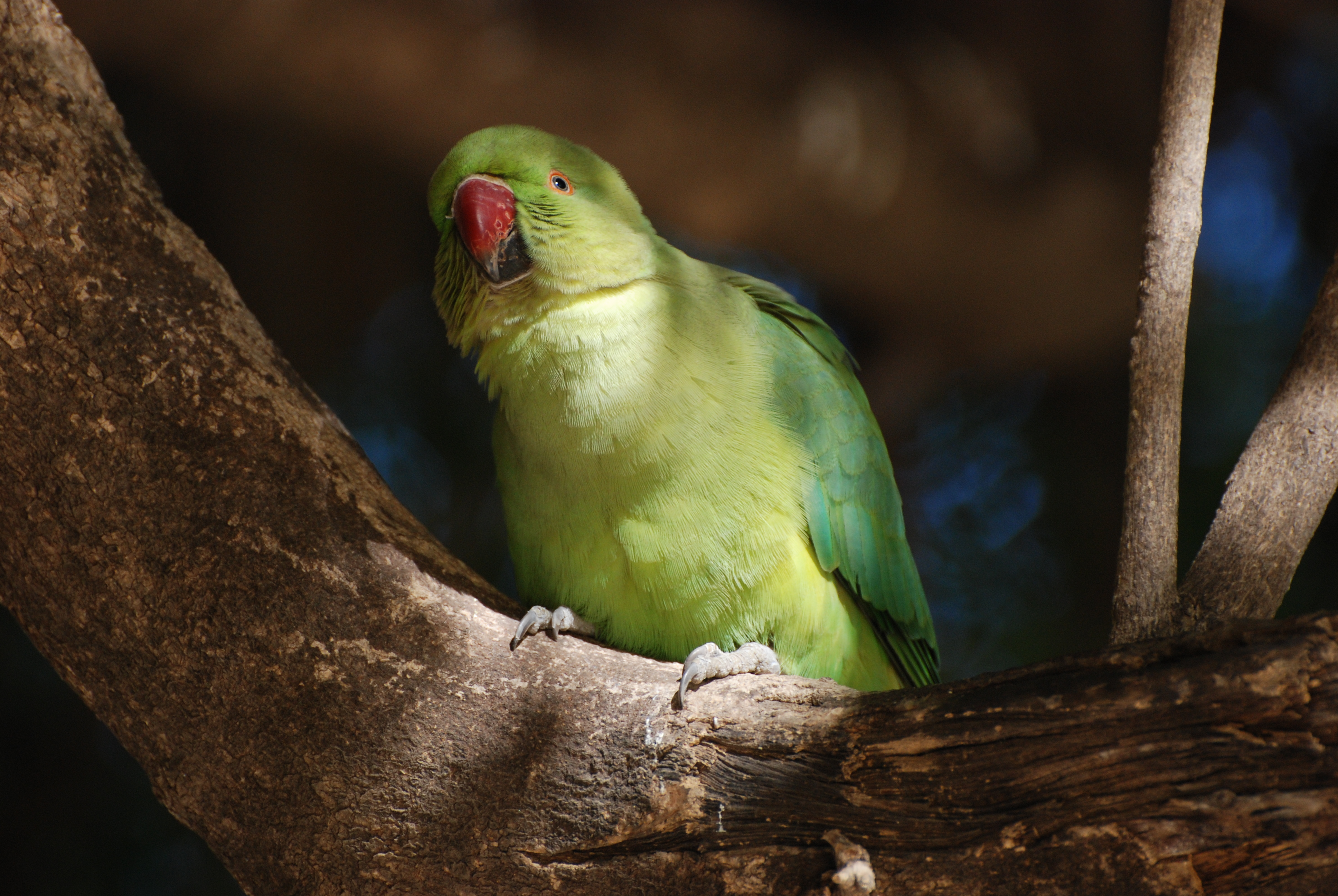 Rose-ringed Parakeet (Psittacula krameri), female, North India